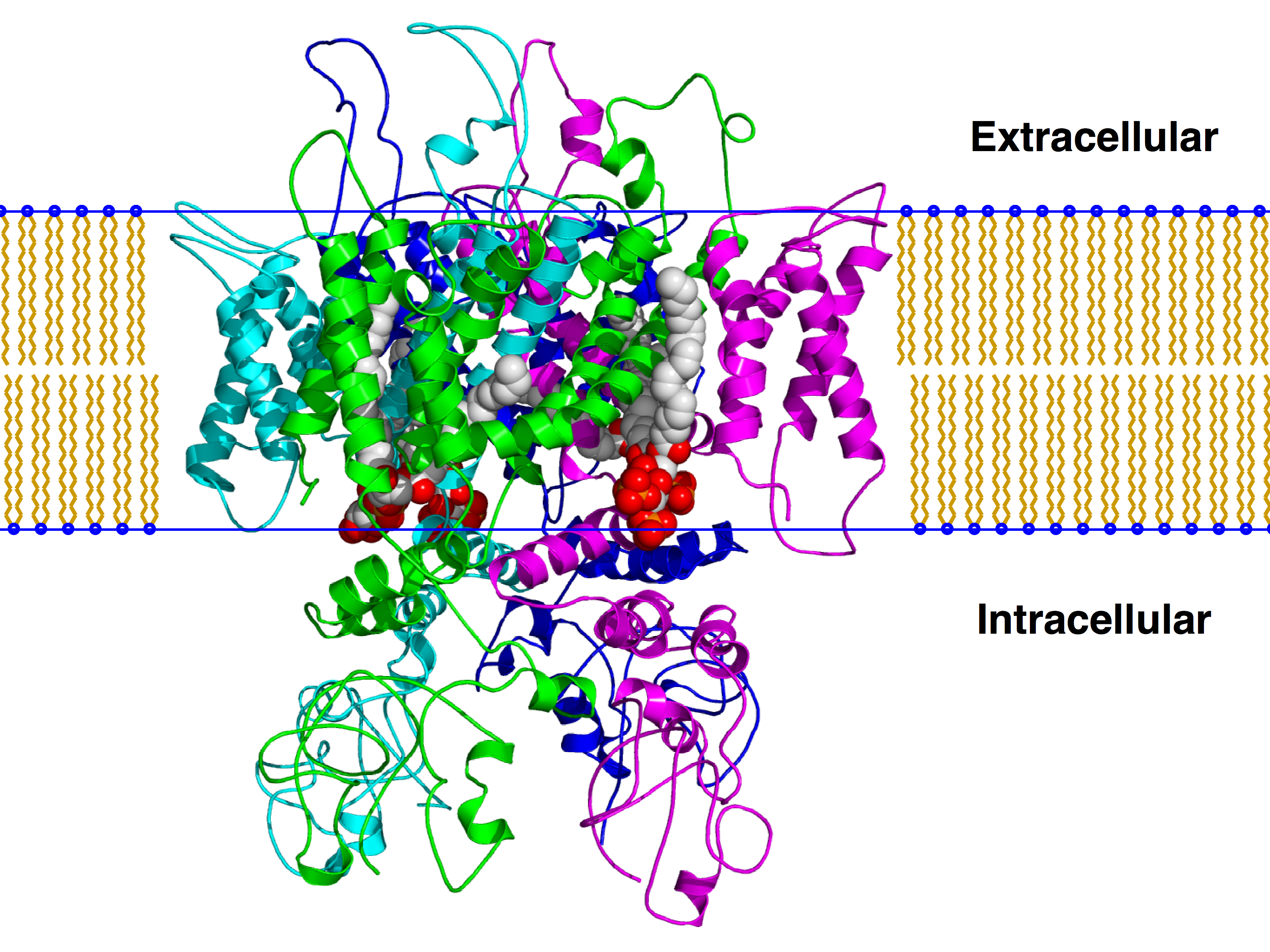 Created using PyMol and a homology model of the TRPV1 ion channel based on a homology model published in Brauchi S, Orta G, Mascayano C, Salazar M, Raddatz N, Urbina H, Rosenmann E, Gonzalez-Nilo F, Latorre R (June 2007). "Dissection of the components for PIP2 activation and thermosensation in TRP channels". Proceedings of the National Academy of Sciences of the United States of America 104 (24): 10246–51. PMID 17548815. PMC: 1891241.